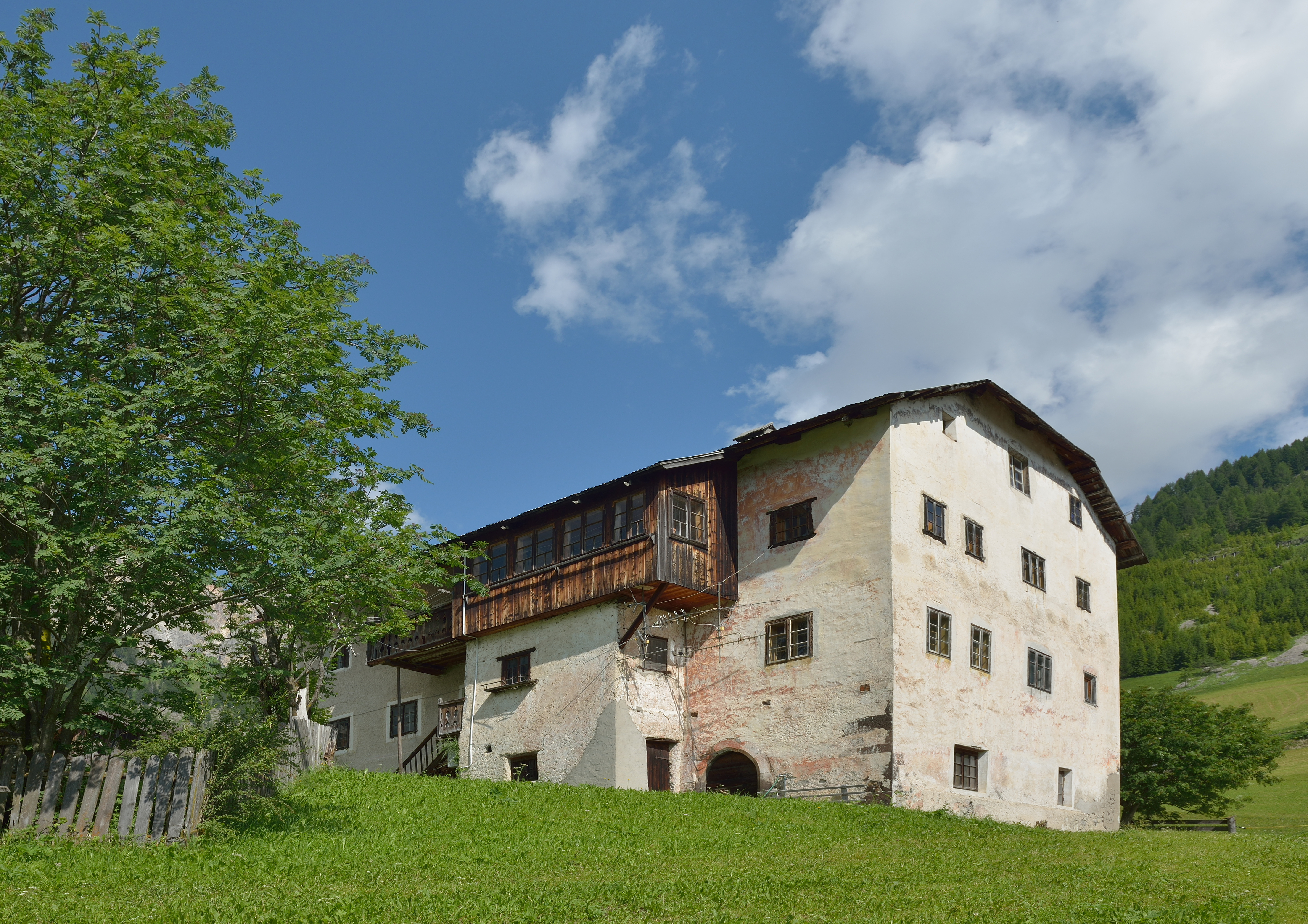 Farmhouse "Zecca da Ruatscht" in Calfosch